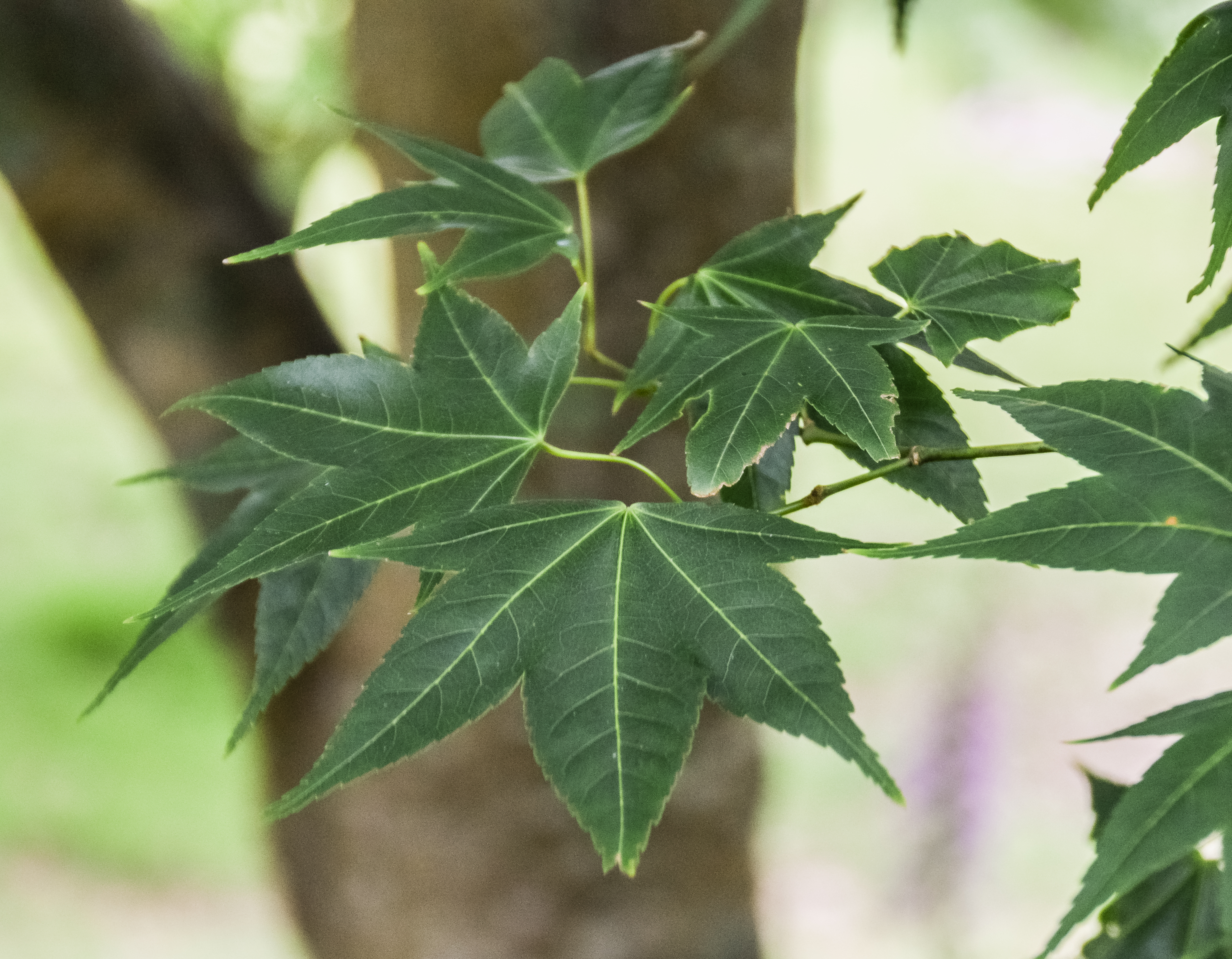 Acer oliverianum subsp. formosanum in Hackfalls Arboretum, Gisborne Region, New Zealand